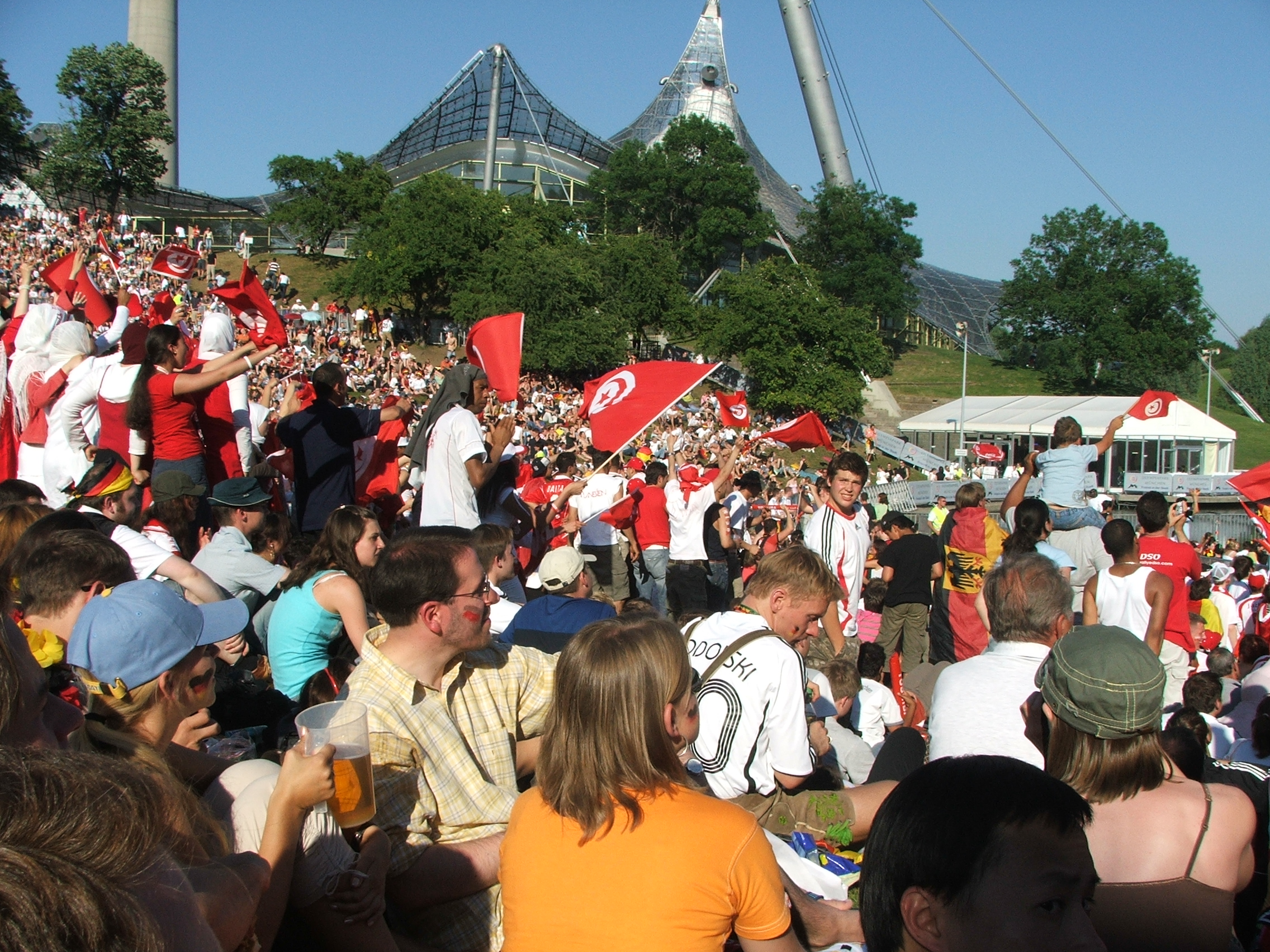 Tunisian footbal fans supporting the Tunisia national soccer team in the Olympic Park in Munich (Germany 2006)